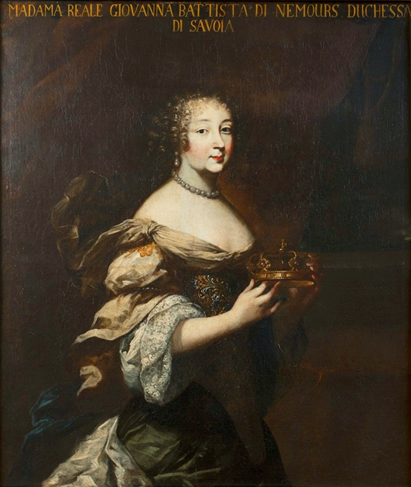 Marie Jeanne Baptiste of Savoy-Nemours